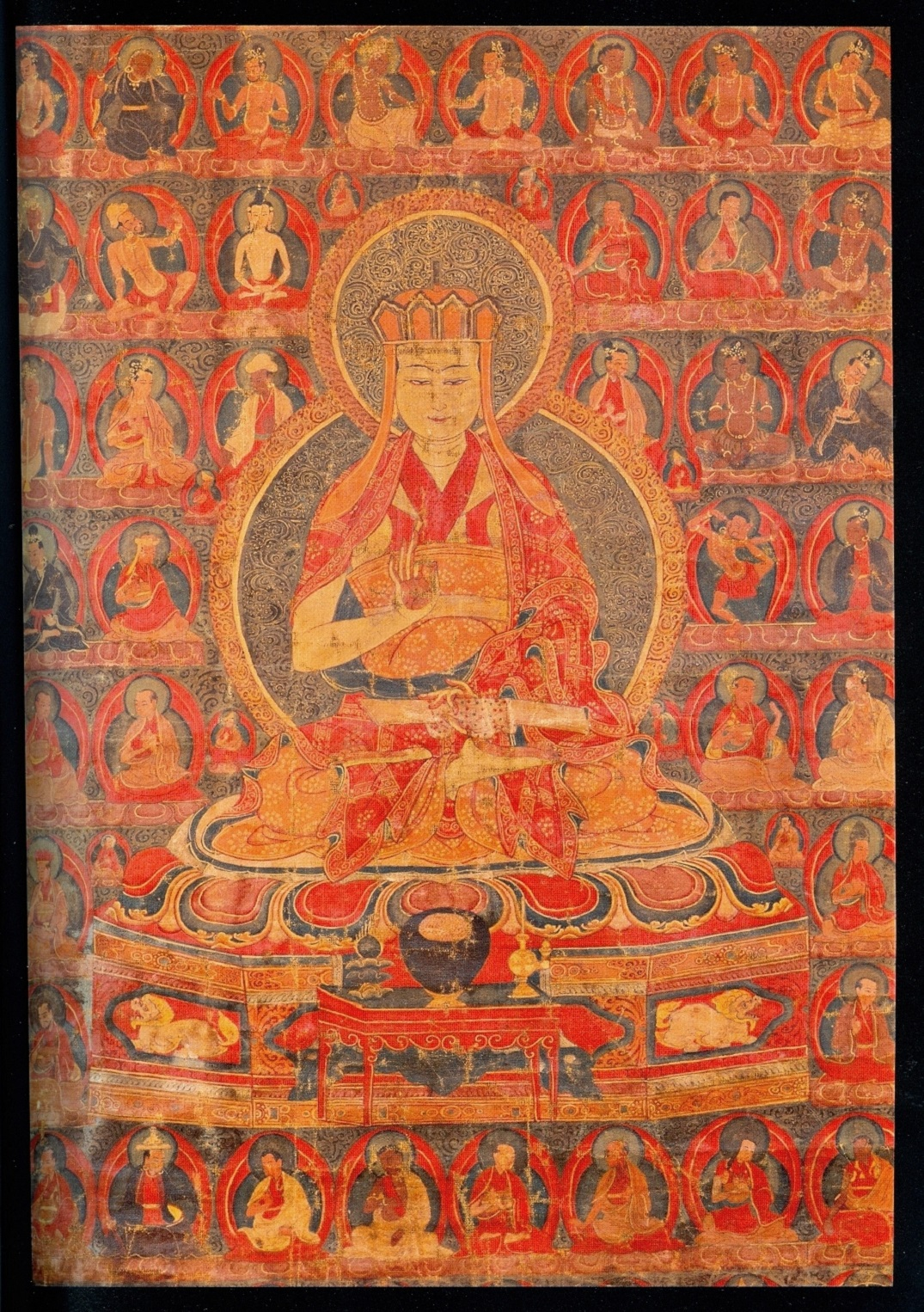 Lineage Lamas of the Oral Tradition from Shangshung Shangshaung Nyangyu Lagyu. Private Coll., Germany